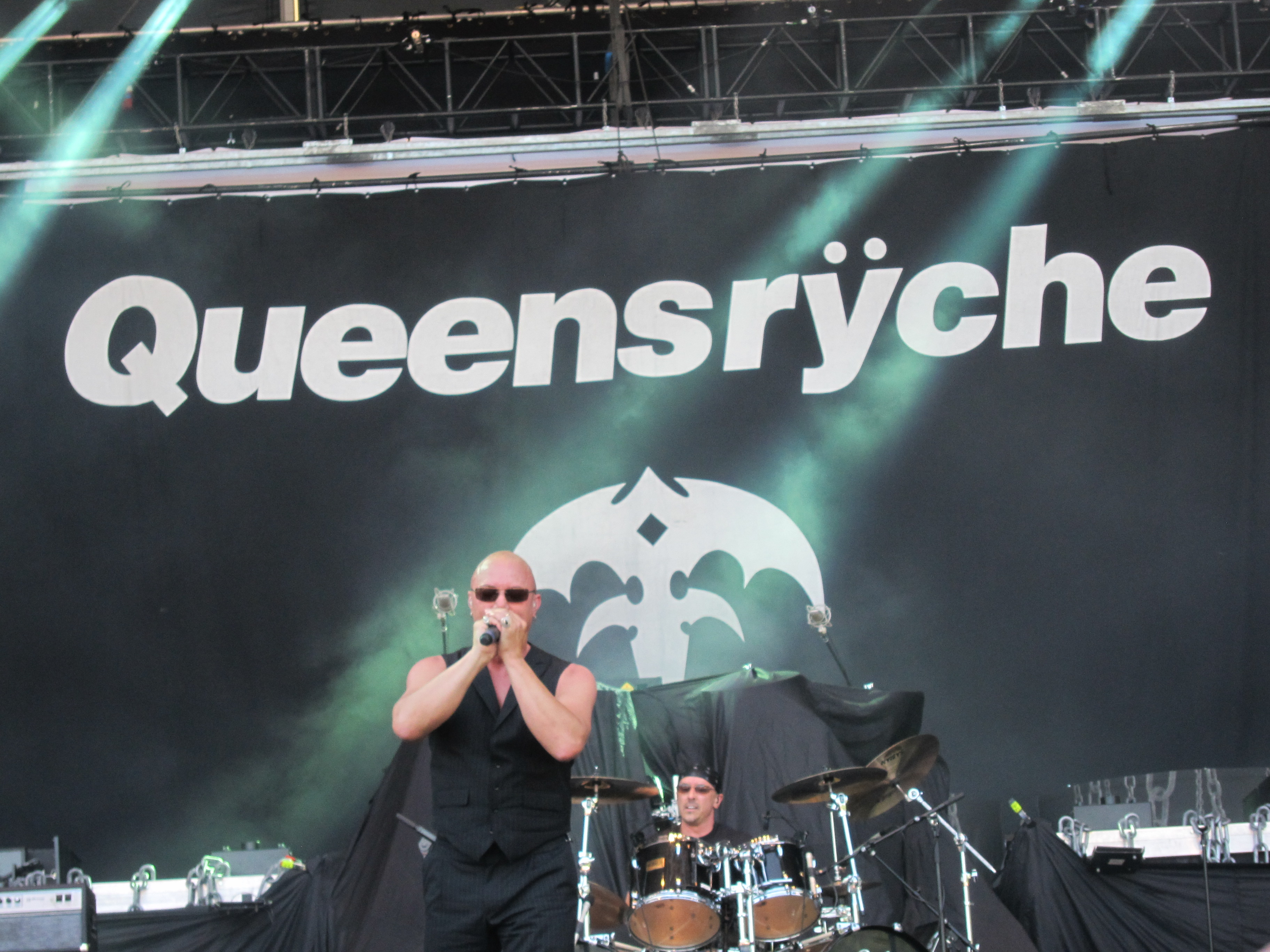 Queensrÿche performing at the Sauna Open Air Metal Festival in Tampere, Finland.